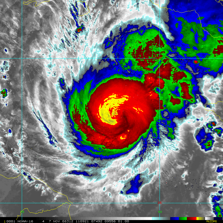 Infrared satellite image of Hurricane Paloma taken by 1 km Mercator, MODIS/AVHRR Satellite on November 7, 2008 at 1109 UTC (5:09 EST). At the time this image was taken, Hurricane Paloma had sustained winds of 75mph (120 km/h).